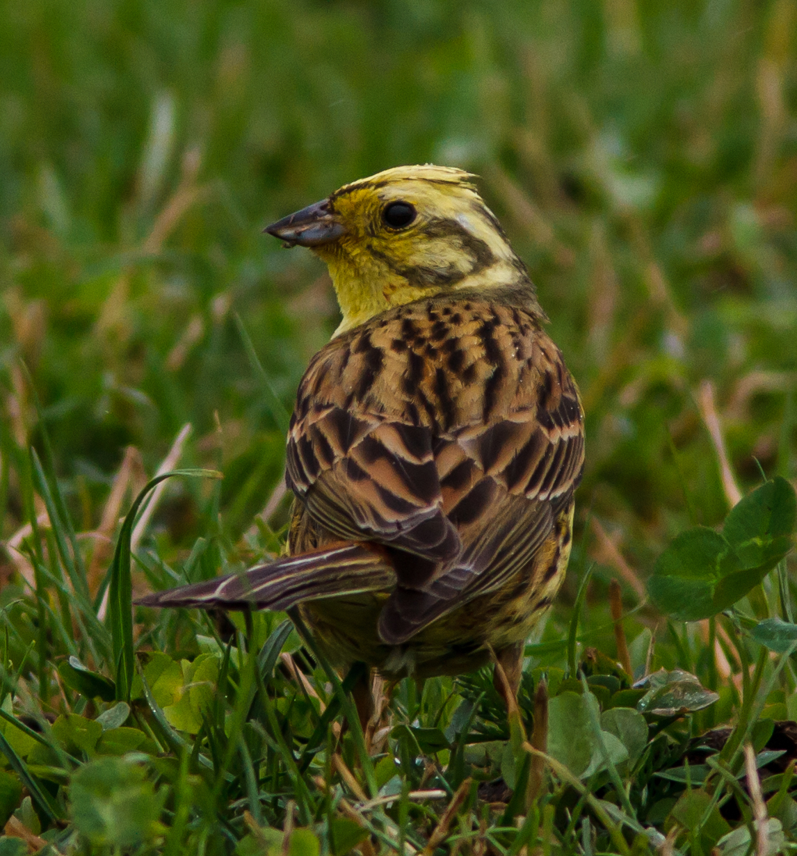 A Yellowhammer in Midtjylland, Denmark.